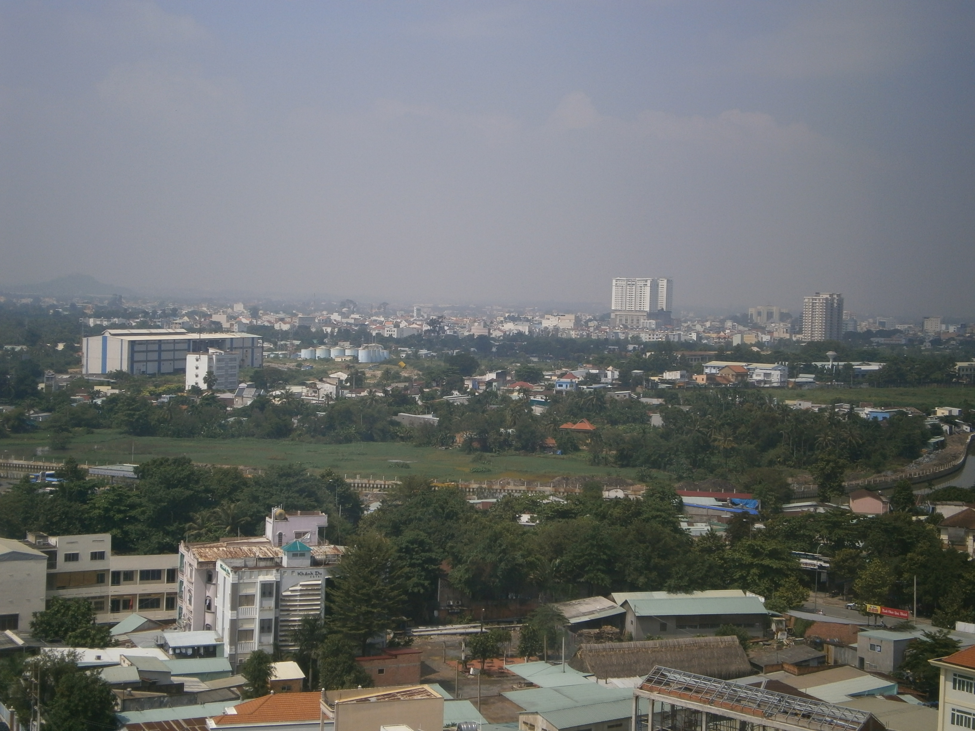 View of Bien Hoa from high floor Aurora Hotel